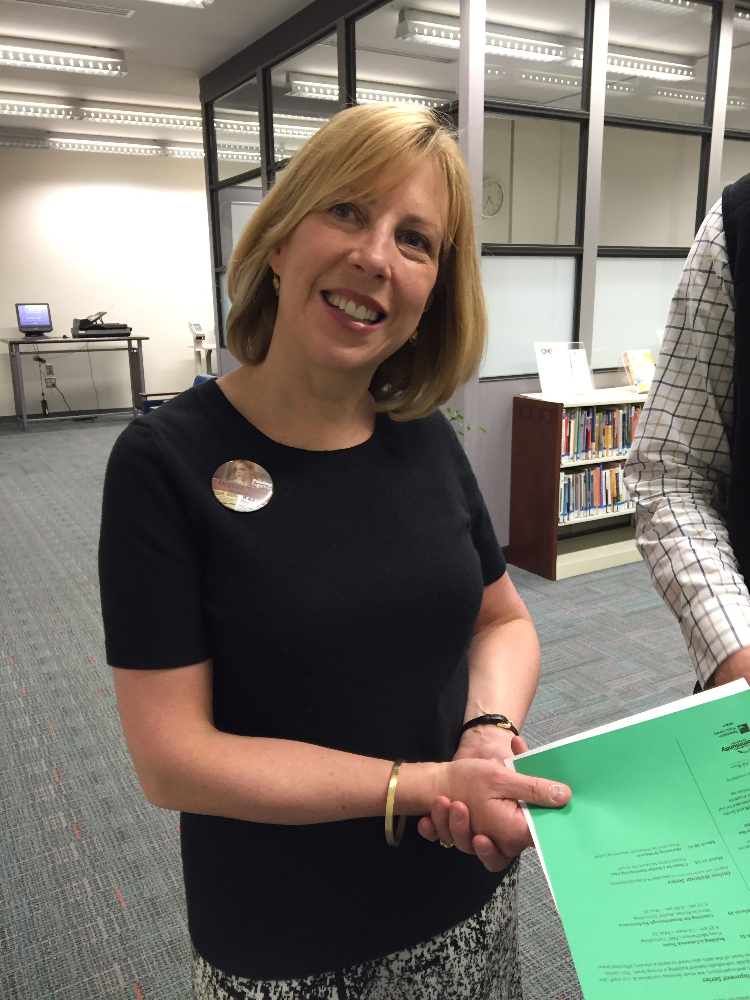 Reading Together author Christina Baker Kline at Central Library, March 7, 2016